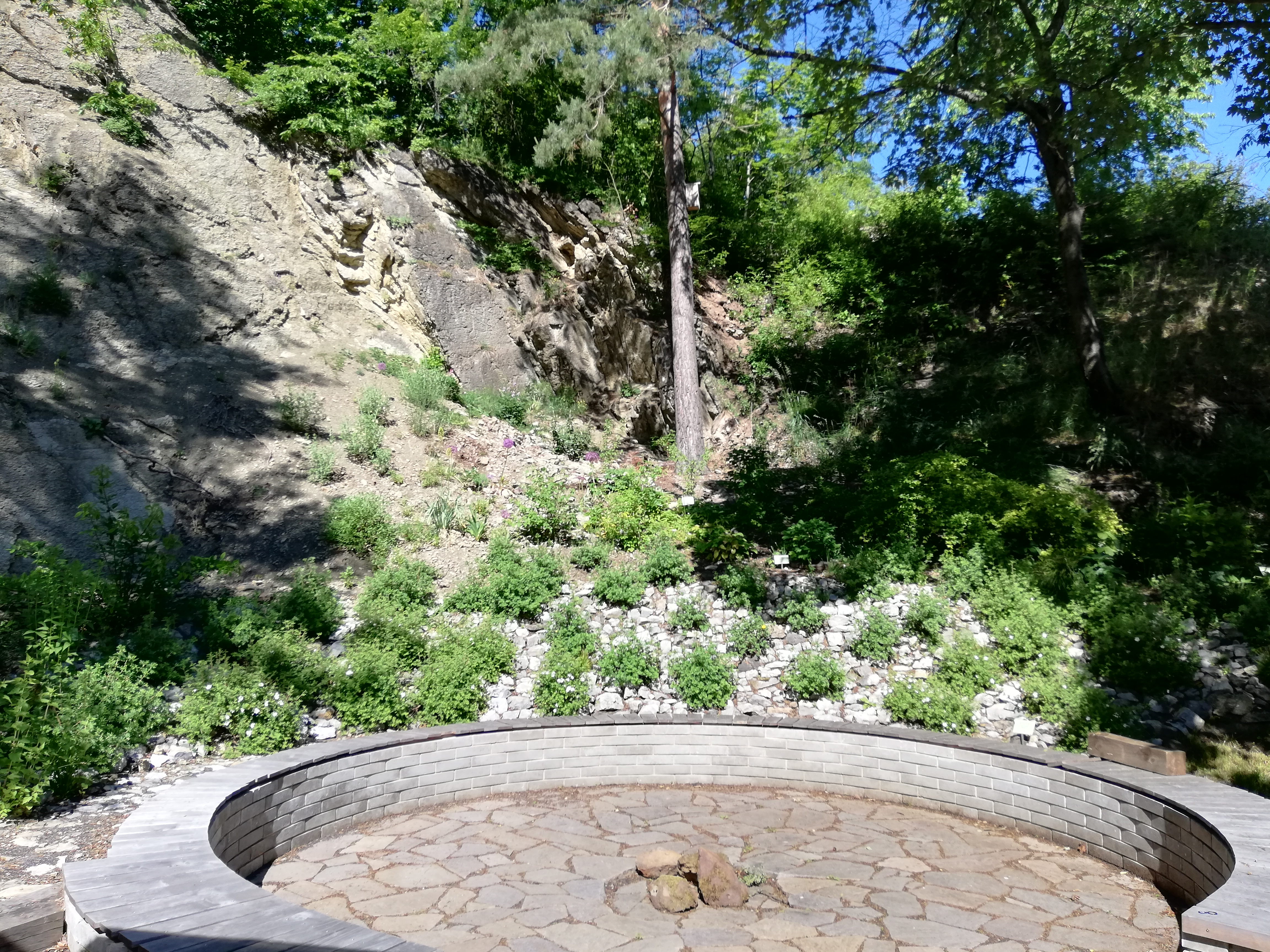 Internal area of The Rock Garden in Hlubočepy (Prague, Czech republic)